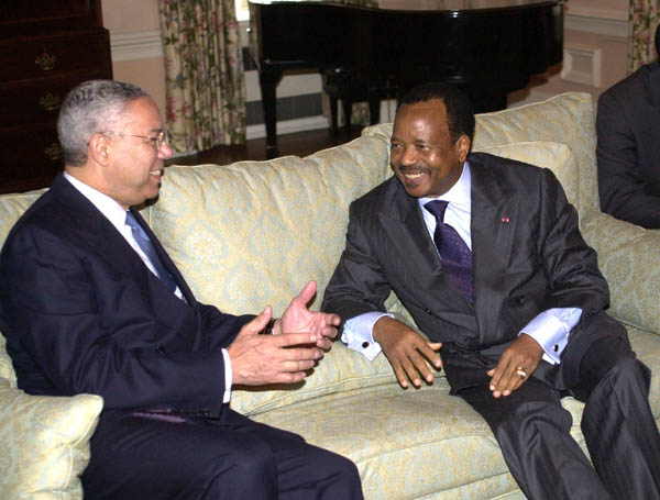 Kameruns Präsident Paul Biya und US-Außenminister Colin Powell, United Nations Security Council Meeting, United Nations Headquarters, New York, September 16, 2002